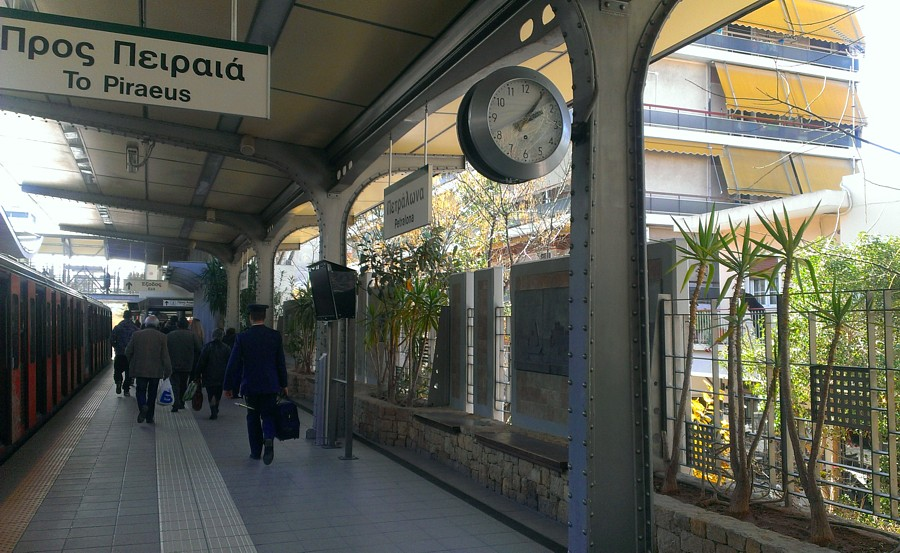 petralona